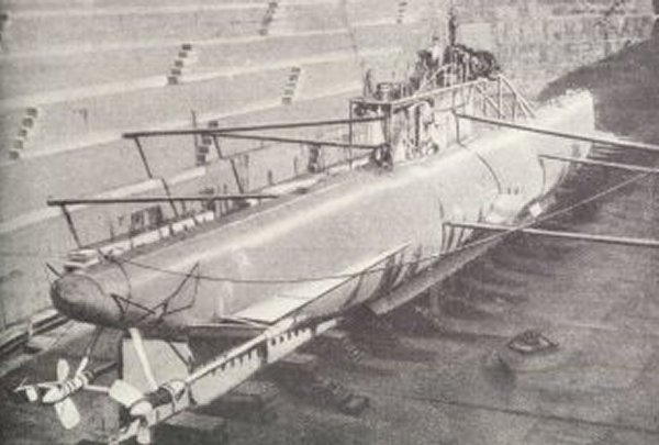 Ottoman submarine Müstecip Onbaşı, formerly the French submarine Turquoise